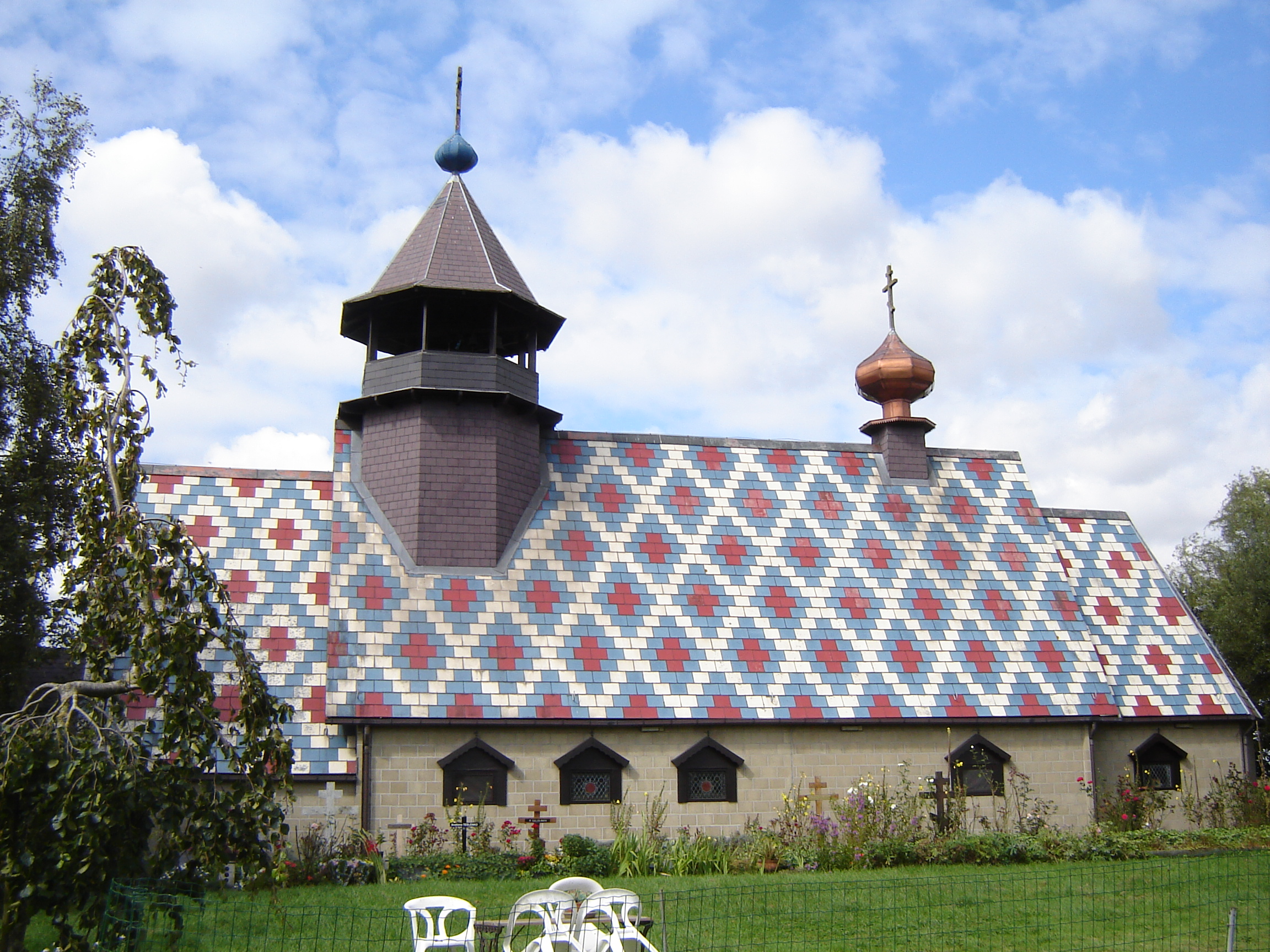 Russian Orthodox church in Lampernisse (close to the road between Oostkerke en Pervijze). Lampernisse, Diksmuide, West Flanders, Belgium